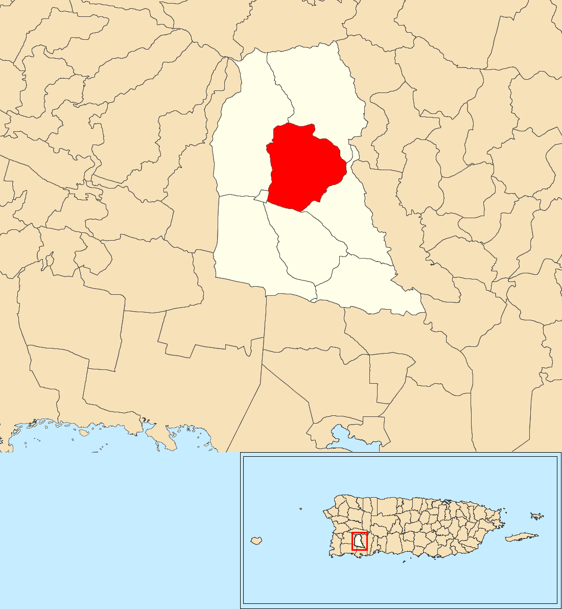 Rincón, Sabana Grande, Puerto Rico locator map